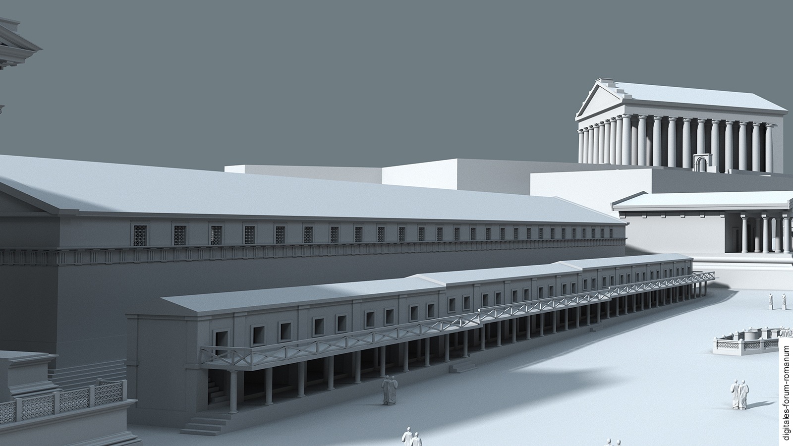 Reconstruction of the Basilica Sempronia with the tabernae veteres in front of it